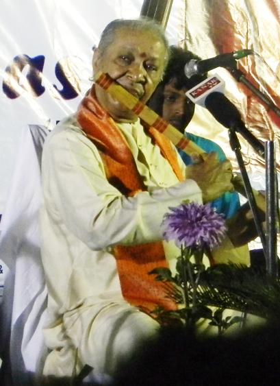 Hariprasad Chaurasia performing at I G Park, Bhubaneswar, Odisha on the occasion of "Music In The Park" This media file is uploaded with Odia loves Wikipedia